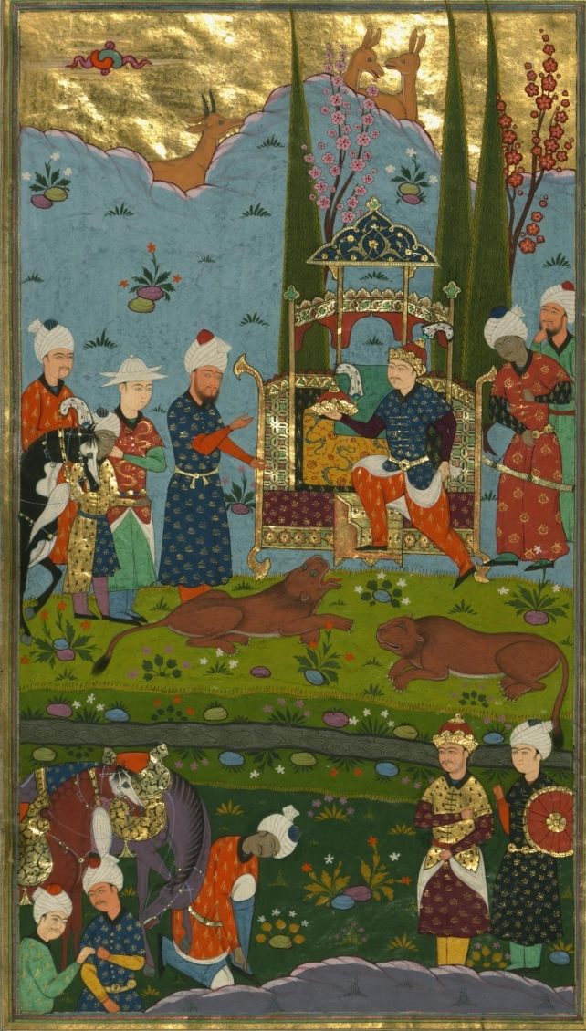 In this folio from Walters manuscript W.607, Bahram Gur seizes the crown after having killed two lions.